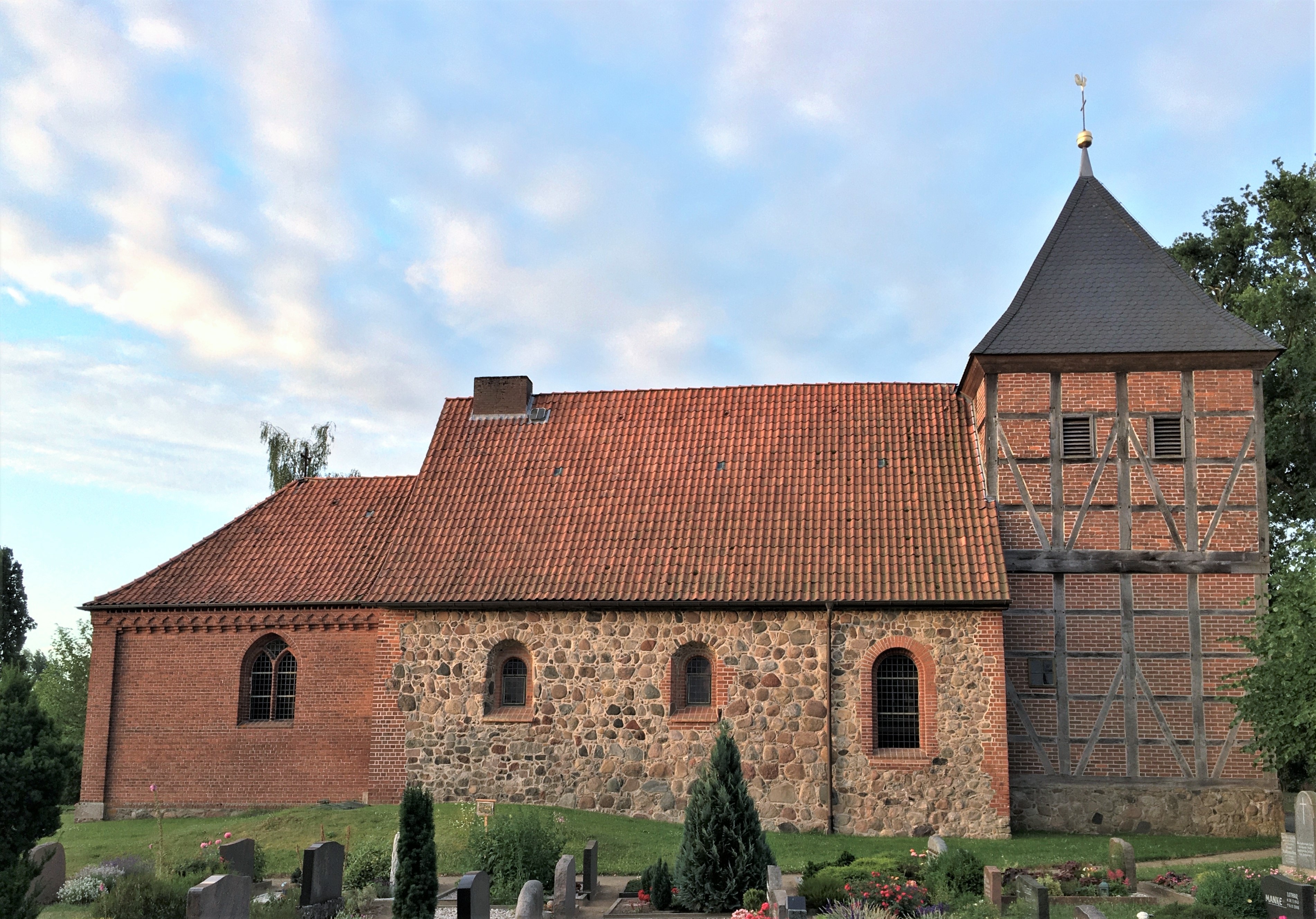 North facade of St. George's Church in Wichmannsburg, district of Uelzen.